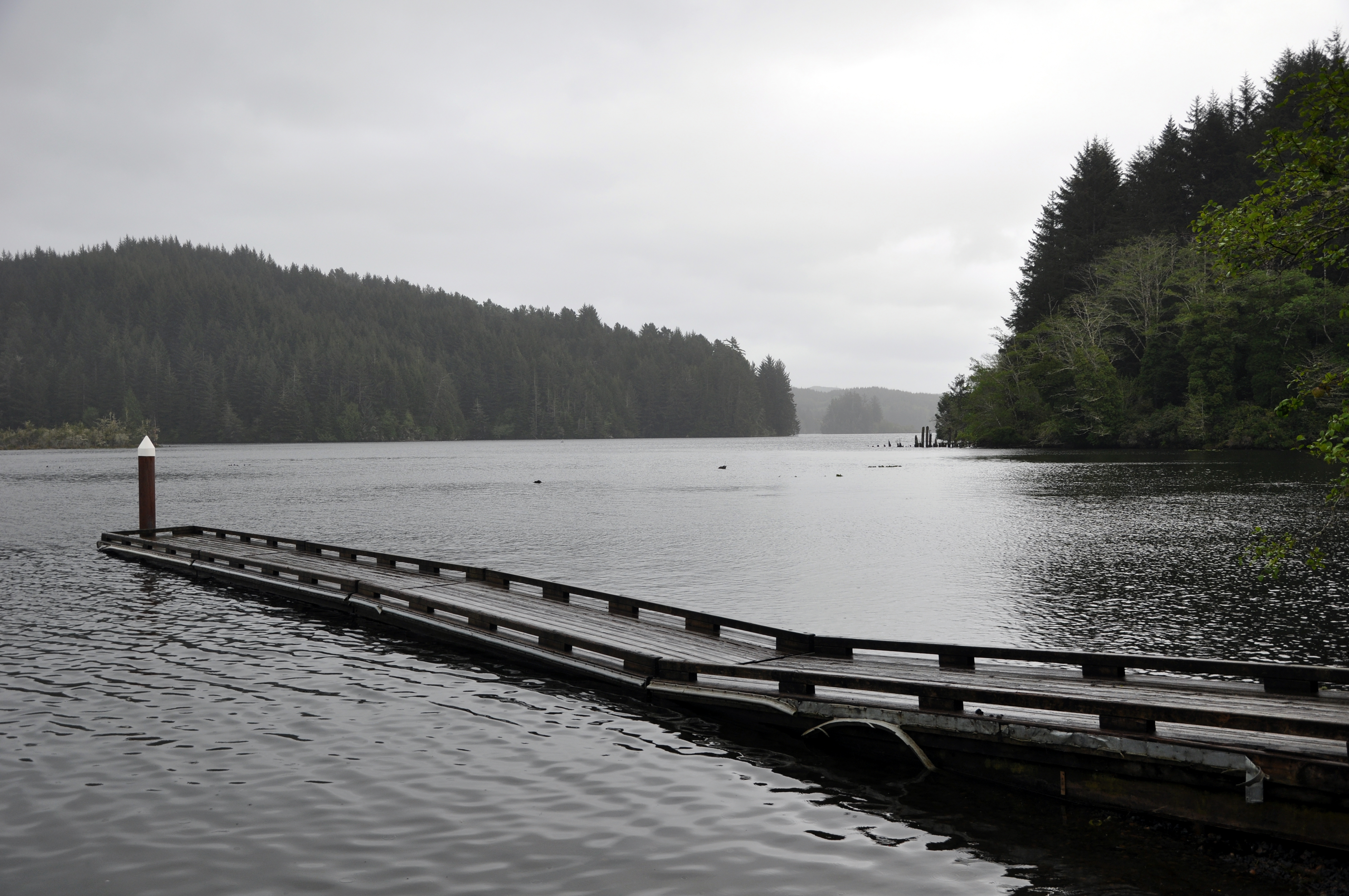 Tahkenitch Lake from near a boat ramp along U.S. Route 101 in the U.S. state of Oregon